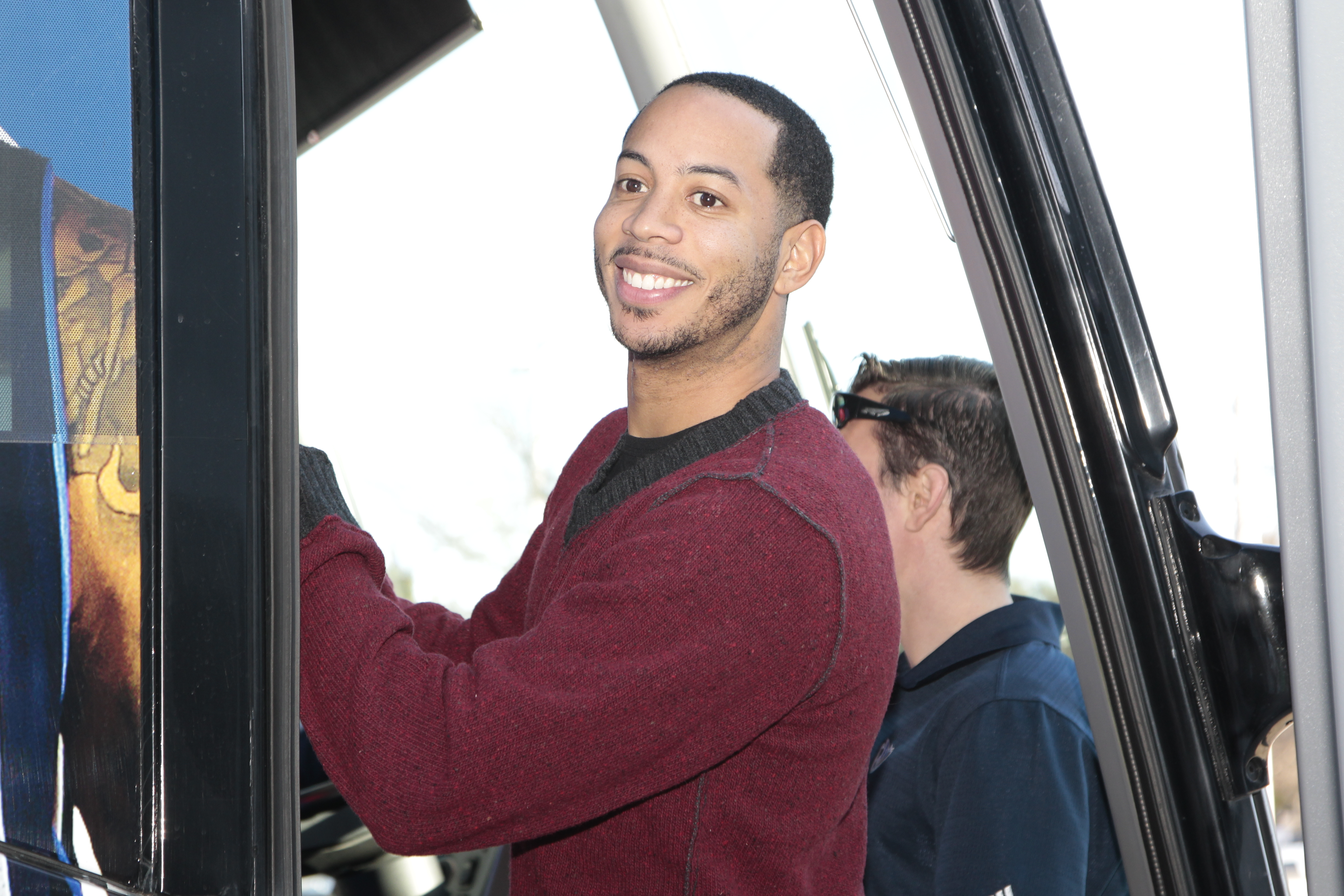 Devin Harris, January 2014.